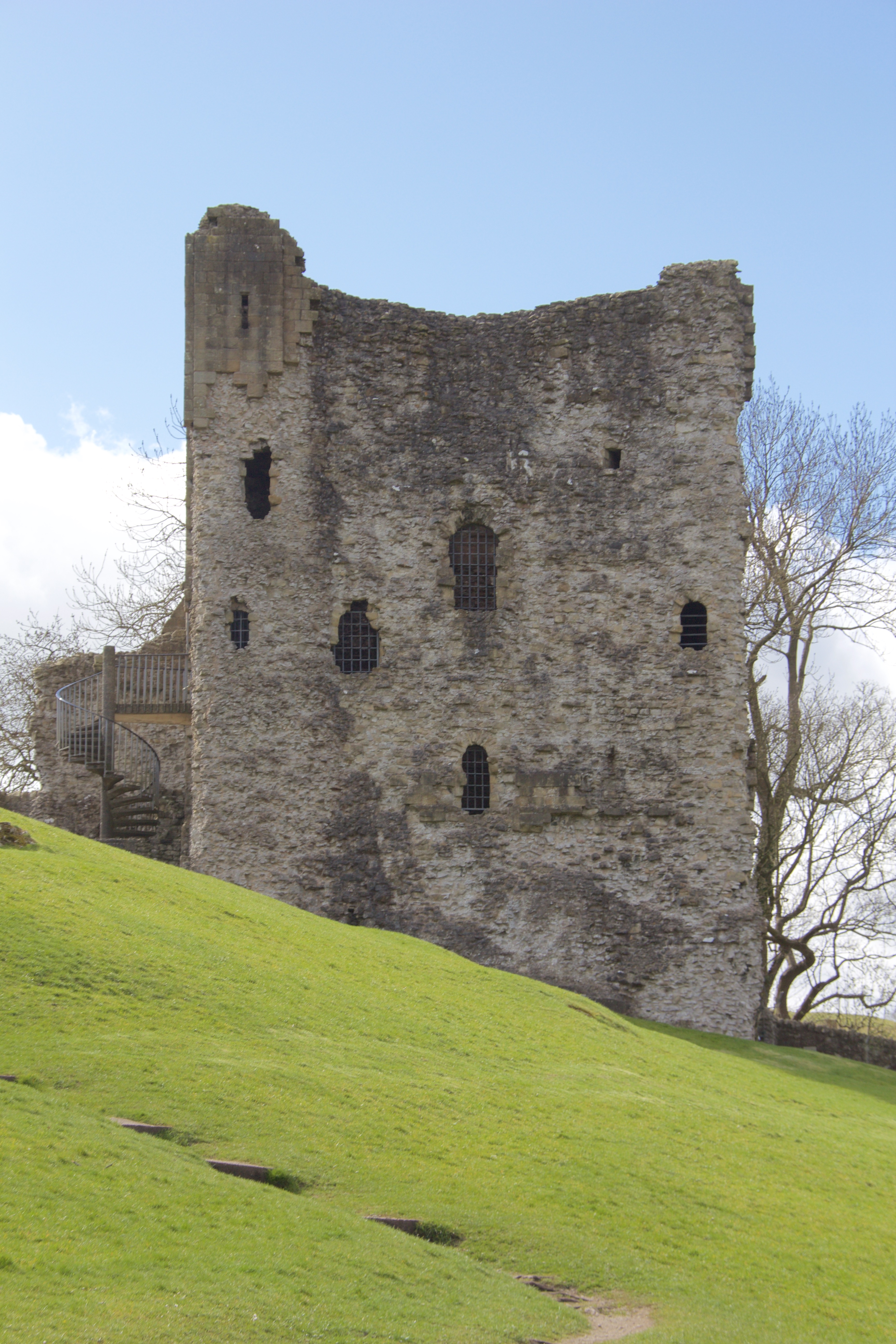 Peveril Castle, Castleton